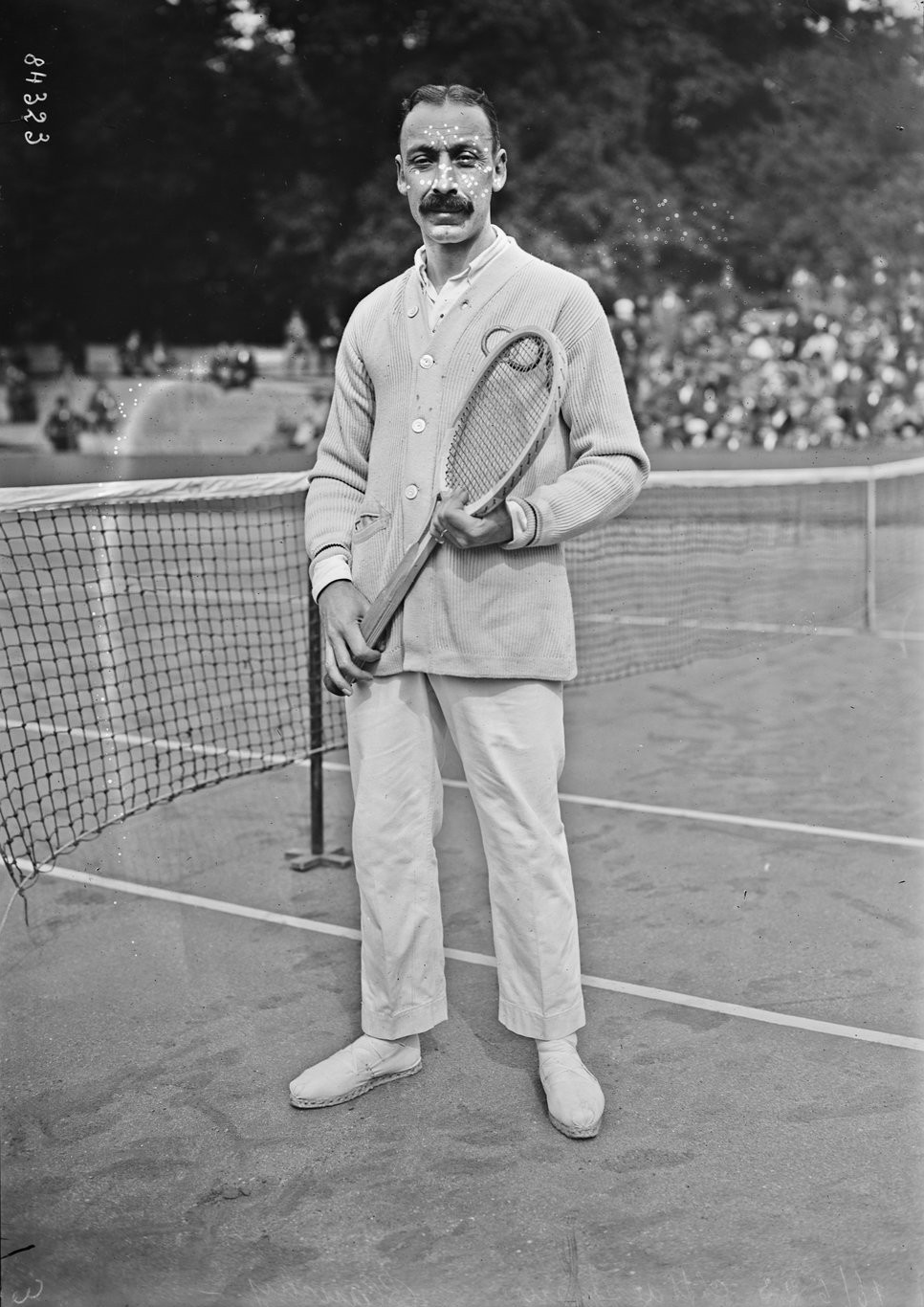 16-6-23, championnat de France (de tennis), Blanchy (vainqueur) - (photographie de presse) - (Agence Rol)